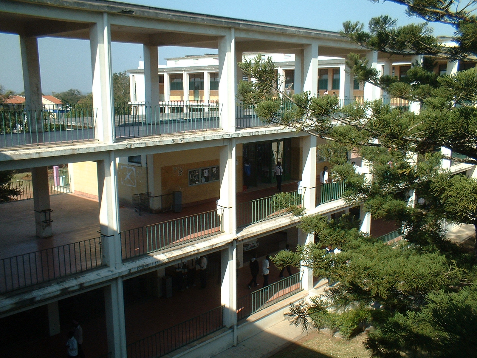 Josina Machel Secundary School, Maputo, Mozambique